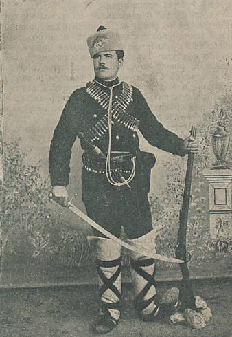 Portrait of Lambo Murgov from Velgoshti, member of SMAC